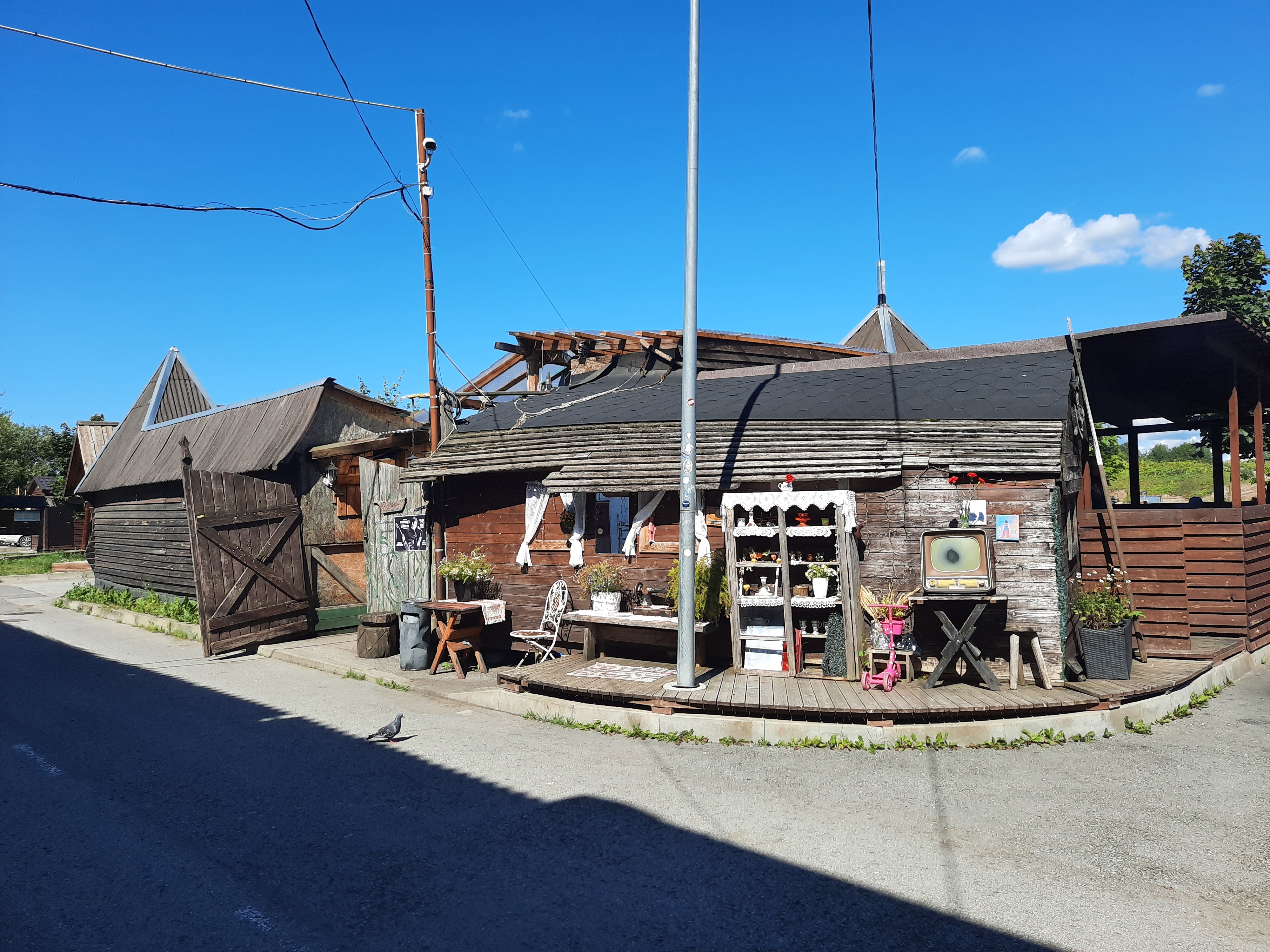 Buildings on Jõe street, Narva